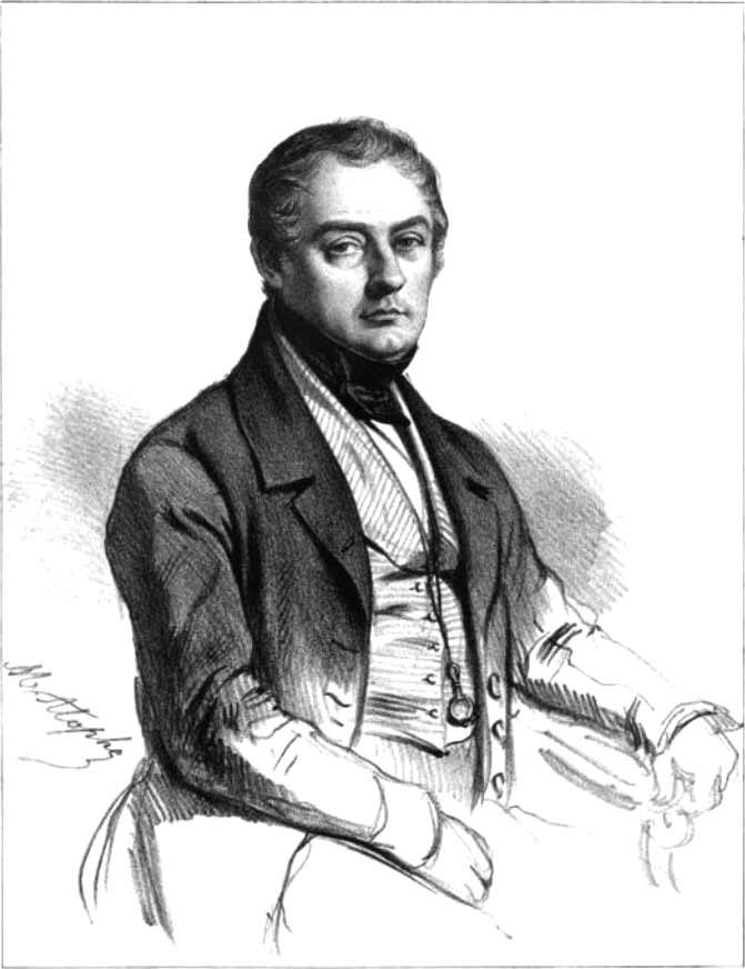 Lithograph of French writer Jean-Toussaint Merle (1785-1852).